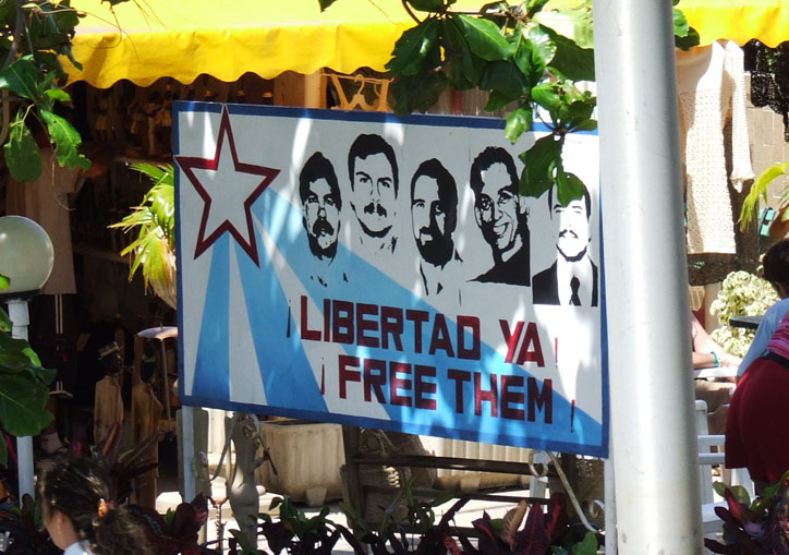 Photo of a Cuban Five poster in Varadero, Cuba.